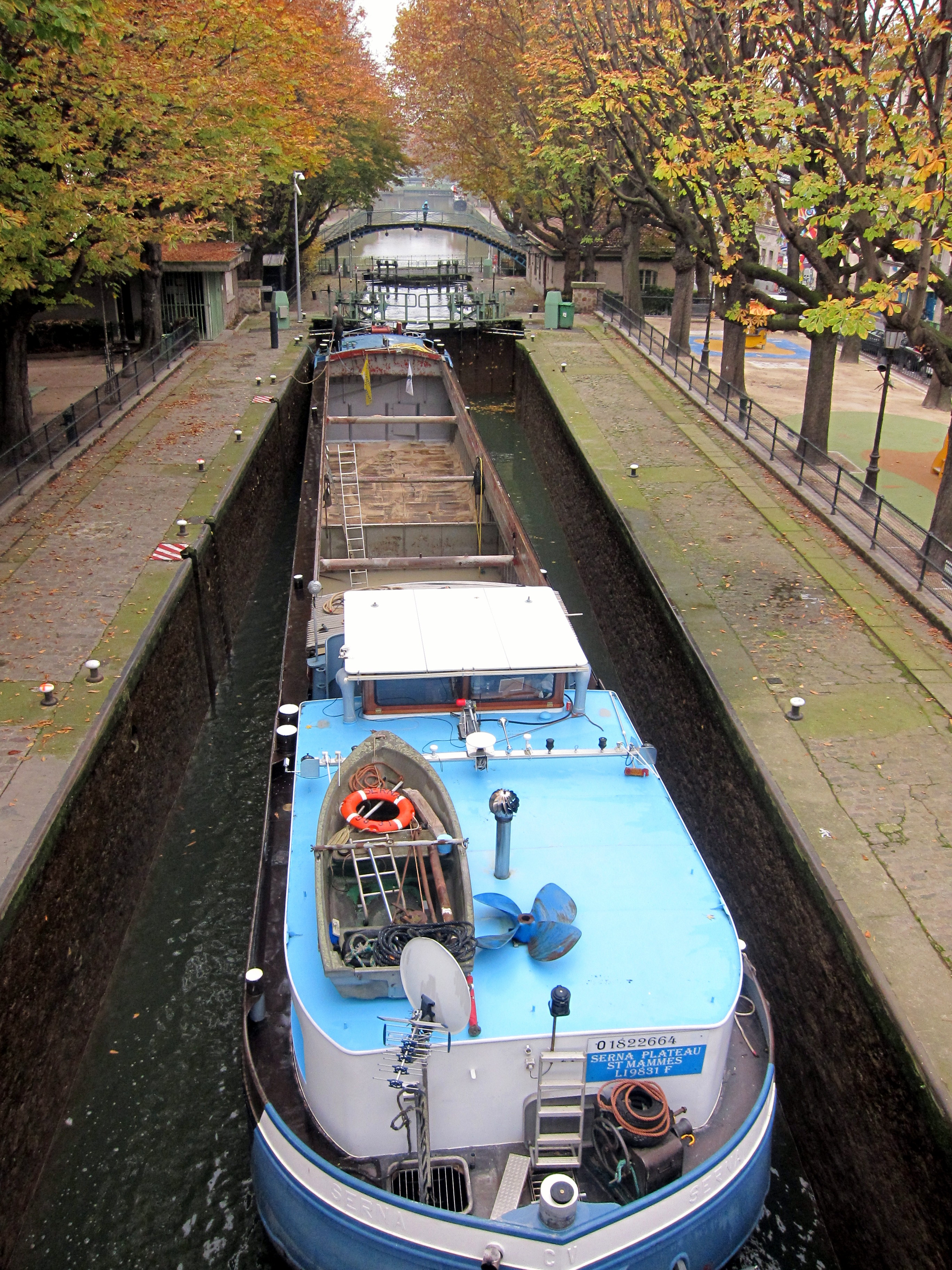 Canal Saint-Martin, Paris.